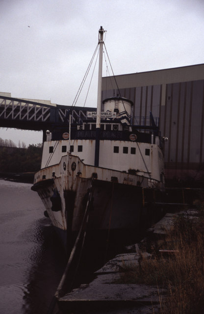 SS Manxman at Pallion Engineering, Sunderland. This is the former Isle of Man Steam Packet Company vessel Manxman which was photographed from inside the yard of Pallion Engineering (with permission). Although there are plans for her preservation, she is not in good condition. She was scrapped in 2012.